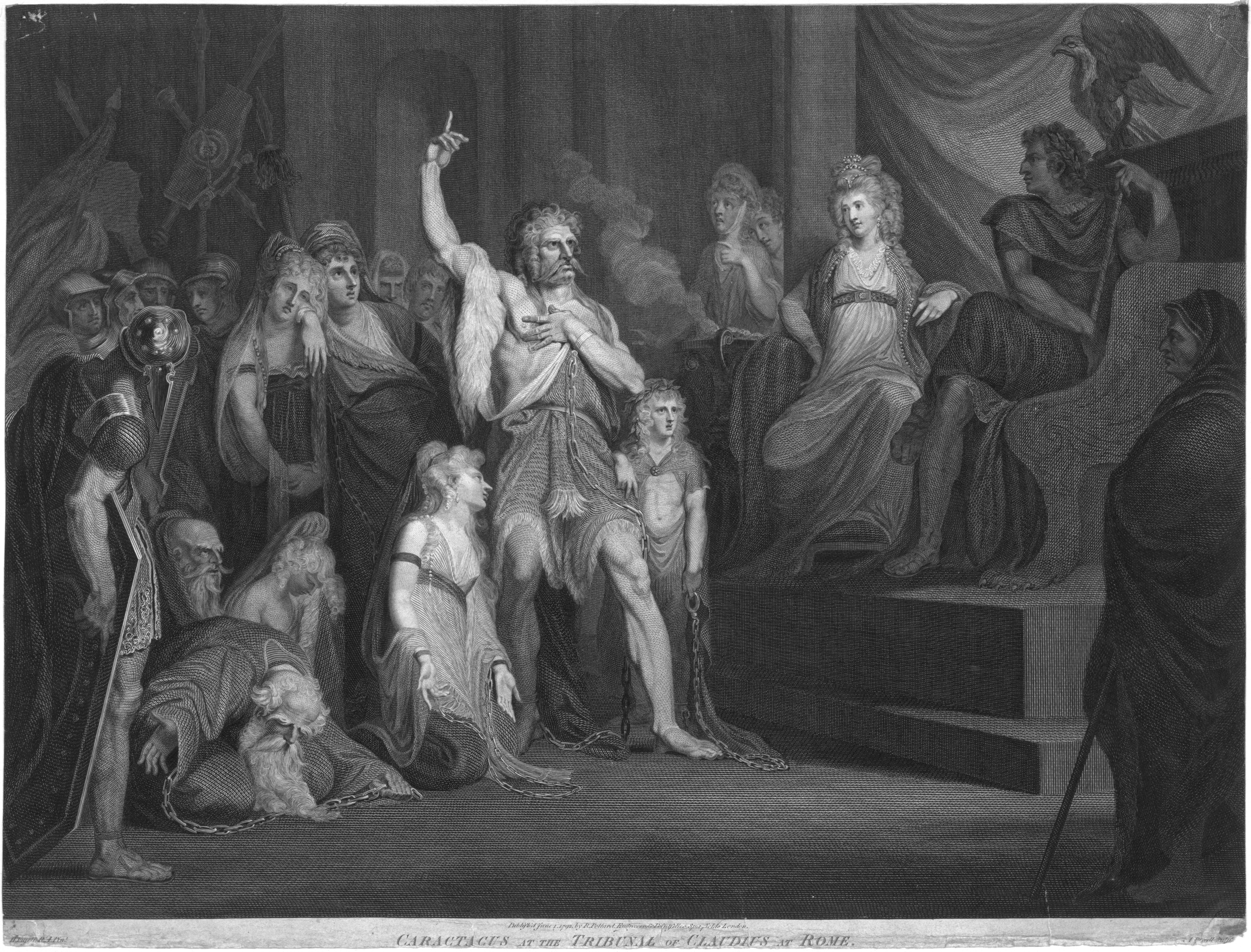 Caractacus at the Tribunal of Claudius at Rome Engraving by Andrew Birrell of a painting by Henry Fuseli Original is a D size print.